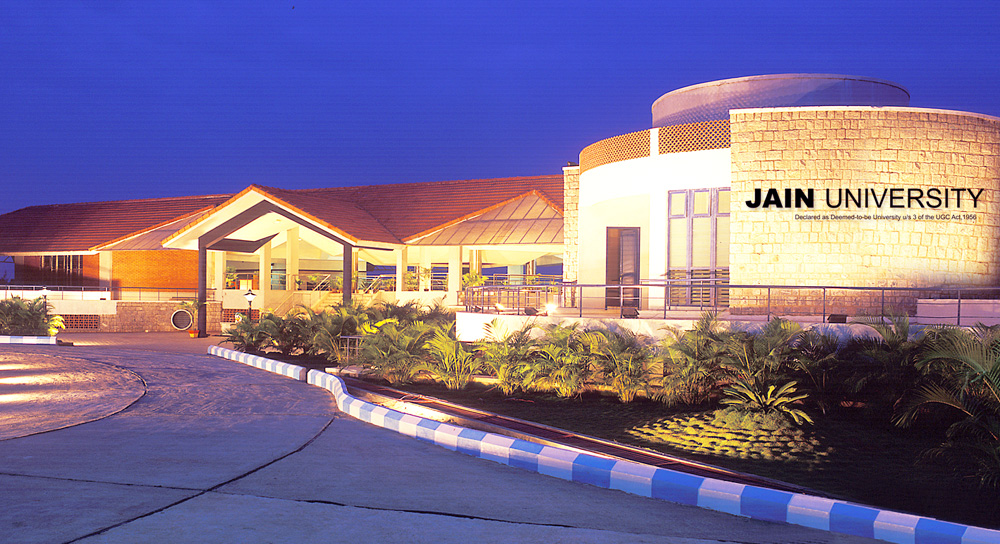 Jain University Global Campus